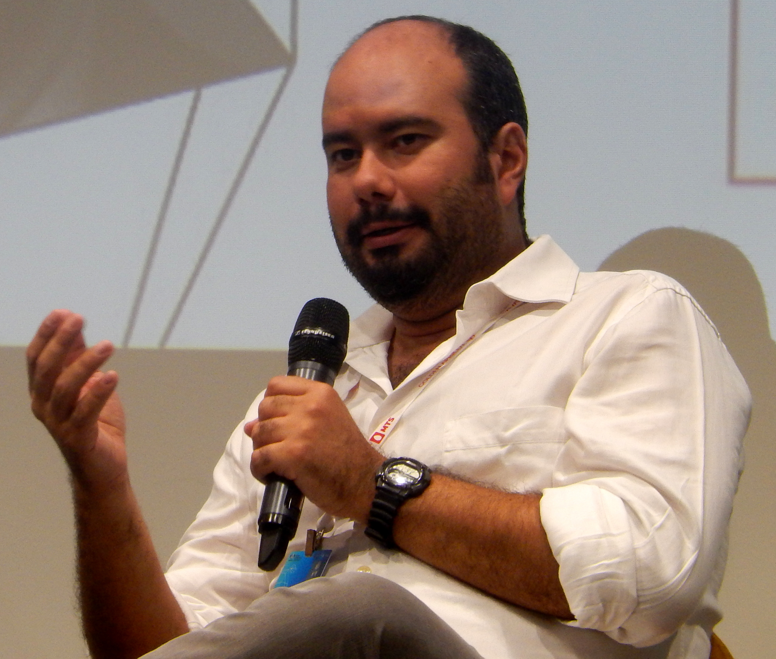 Master Class by Ciro Guerra in the framework of Golden Apricot film festival